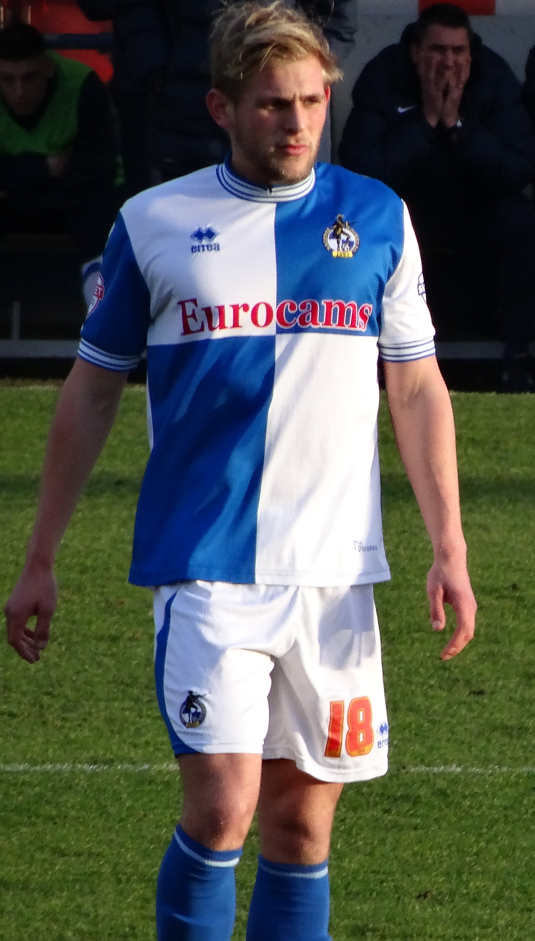 Mitch Harding playing for Bristol Rovers against York City at Bootham Crescent, York on 18 January 2014